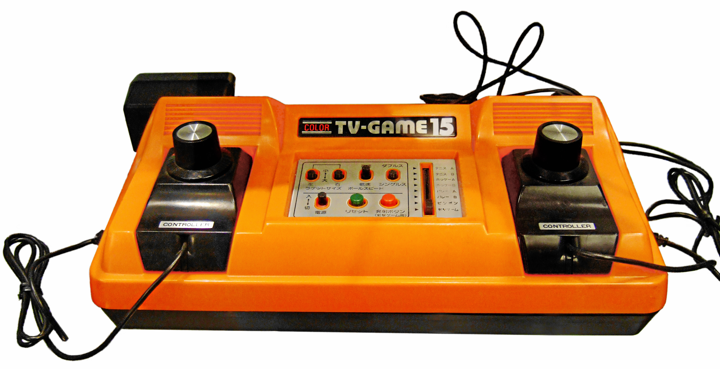 Color TV-Game_15, extended version of NintendoTV-Game_6 - Console with 15 slightly different games.